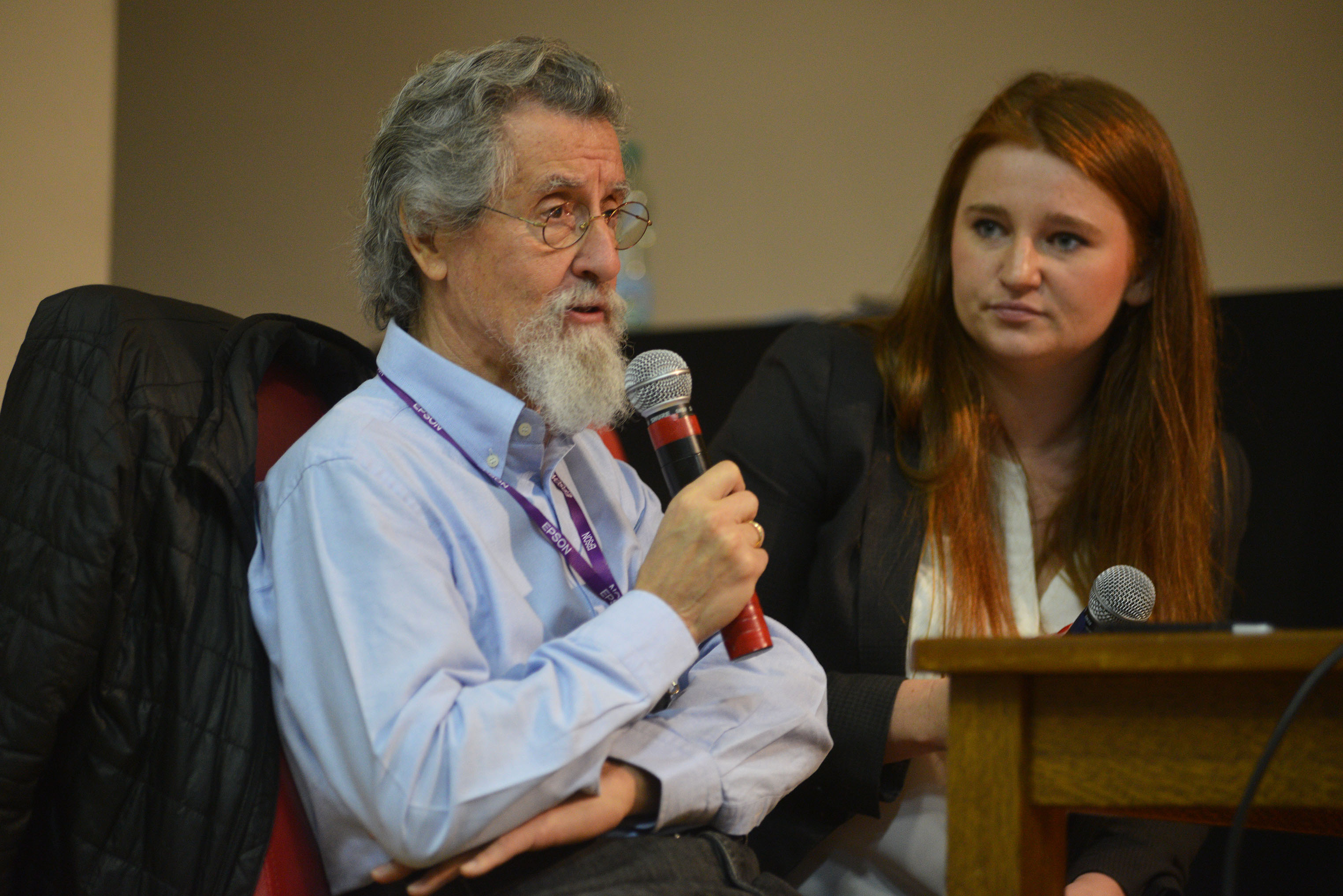 Famous spanish photographer Rafael Navarro Garralaga during FotoArtFestival in Bielsko-Biala, Poland, 2015